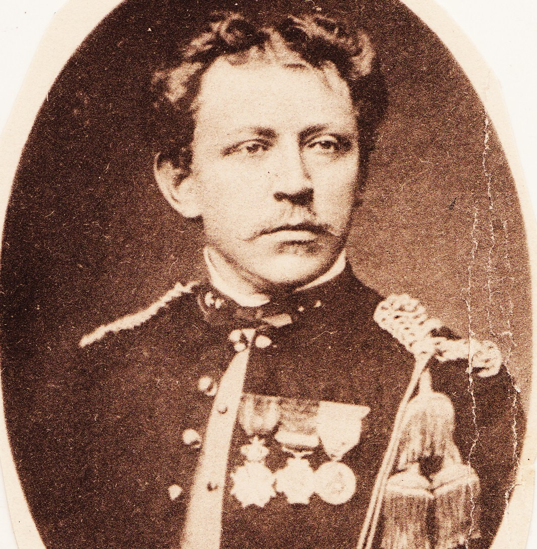 T. van der Zee